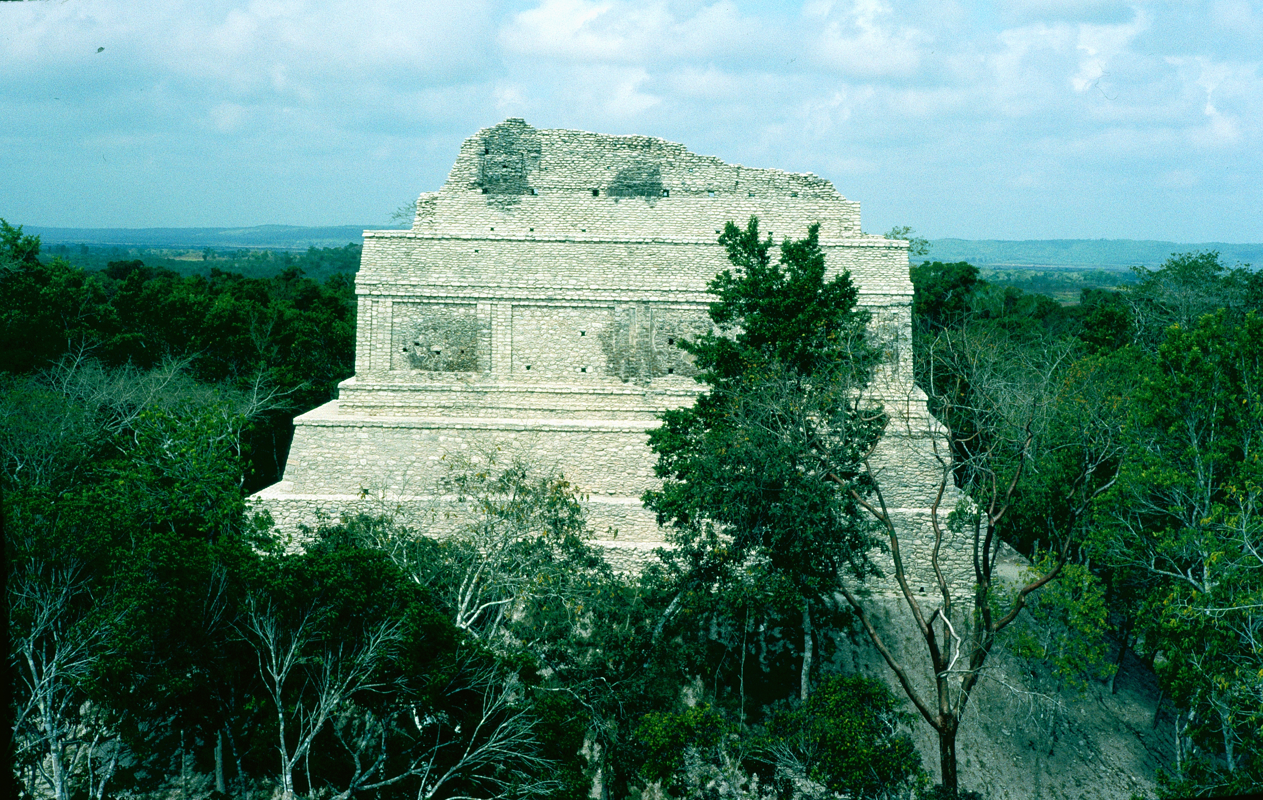 Dzibanche, Quintana Roo, Mexico: building of the cormorants